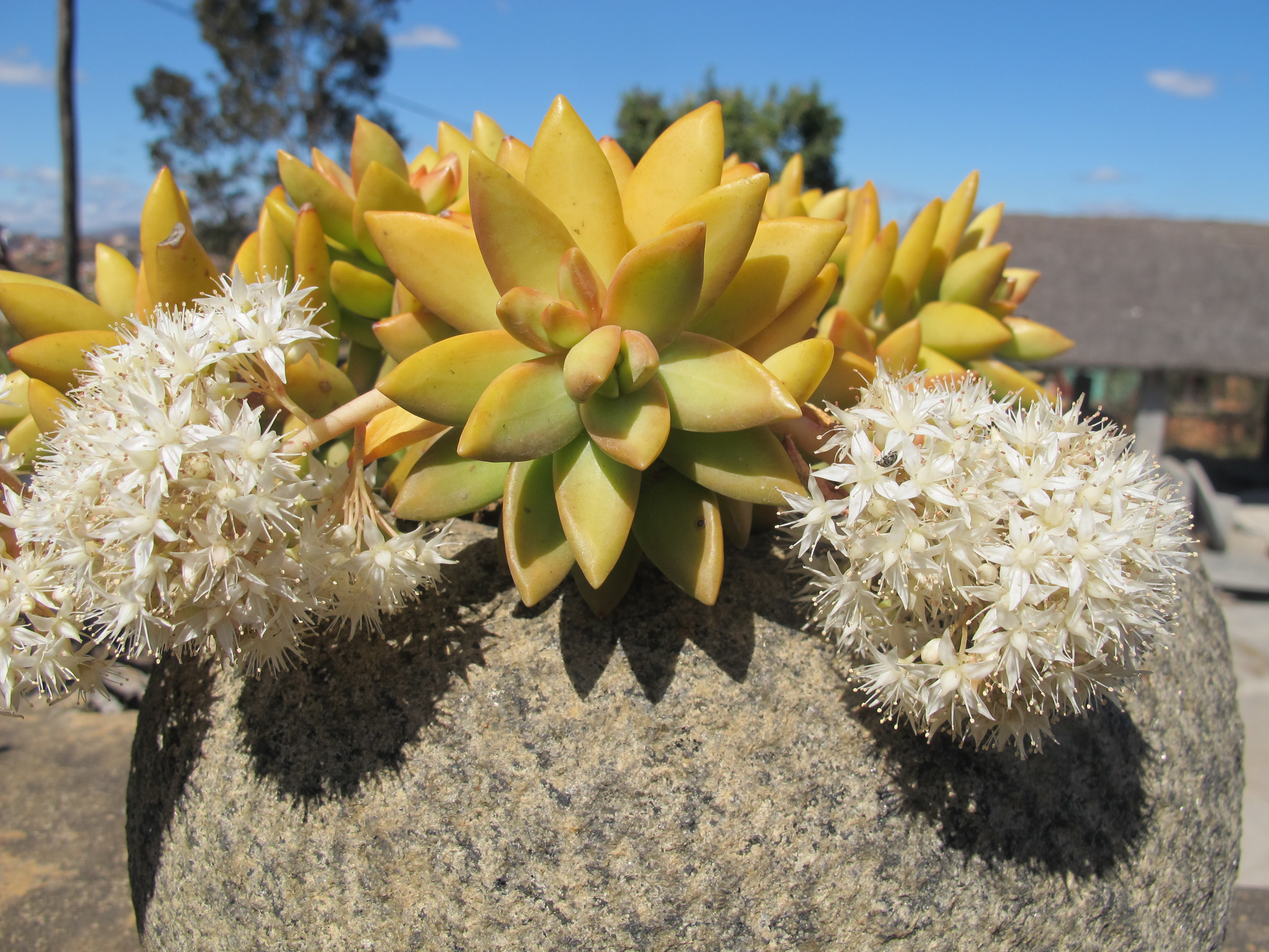 Sedum nussbaumerianum in Ambatomaro/Antananarivo Madagascar